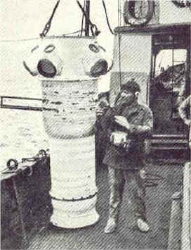 The "torretta butoscopica" (exploration turret), designed, built, assembled and tested by the Italian diver Alberto Gianni (right). Scanned from the book Viaggi nel mondo sommerso (Travel in the underwater world) by Ulderico Tegani, Mondadori, 1931.